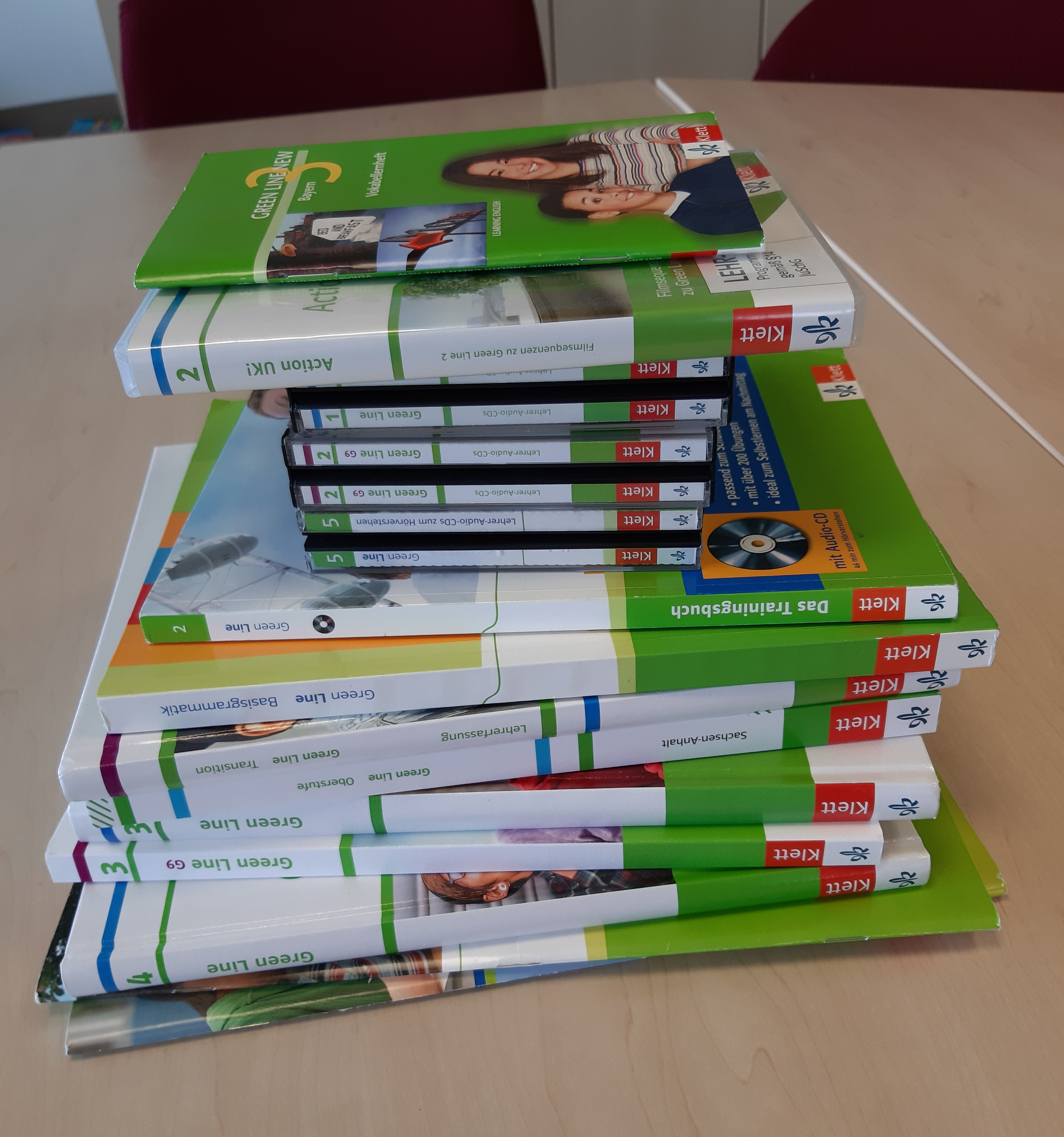 This is a bunch of randomly selected books and materials from the Green Line series published by Klett (materials used for teaching english language in german schools)